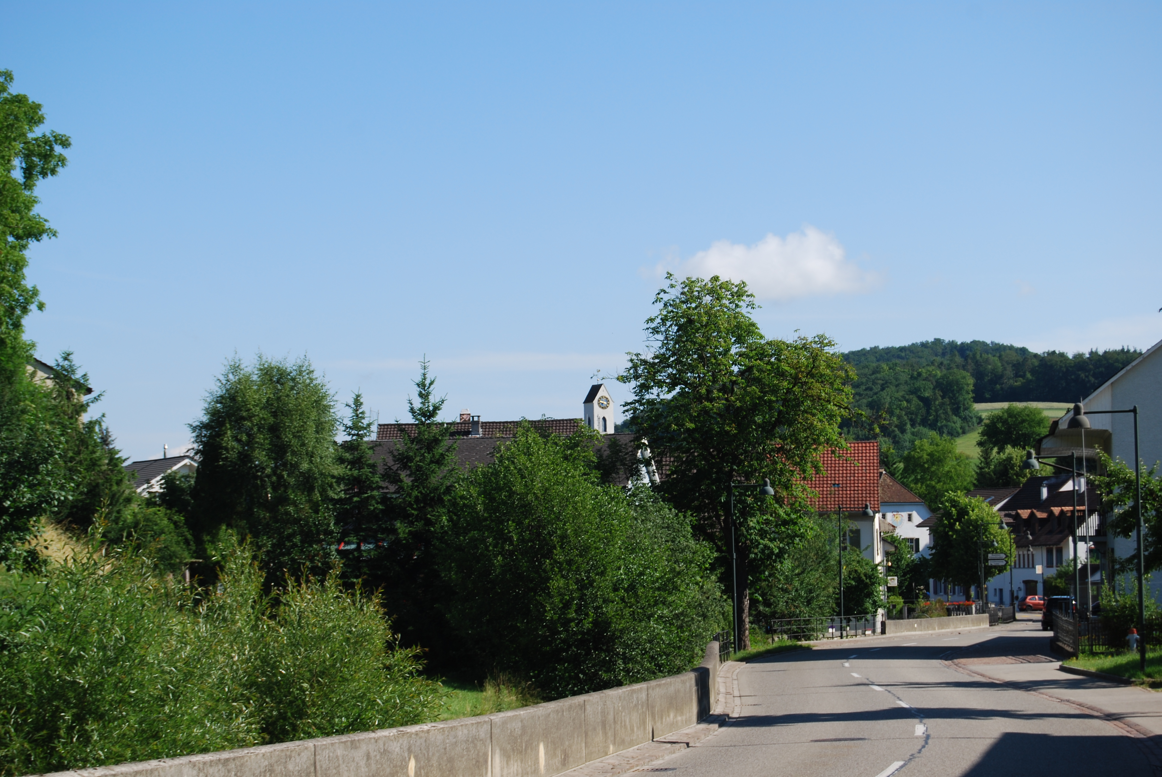 Diegten, canton of Basel-Country, Switzerland